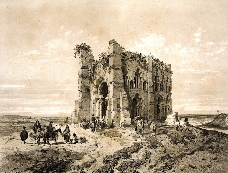 Iglesia gótico-mudéjar de Humanejos. 19th century drawing.